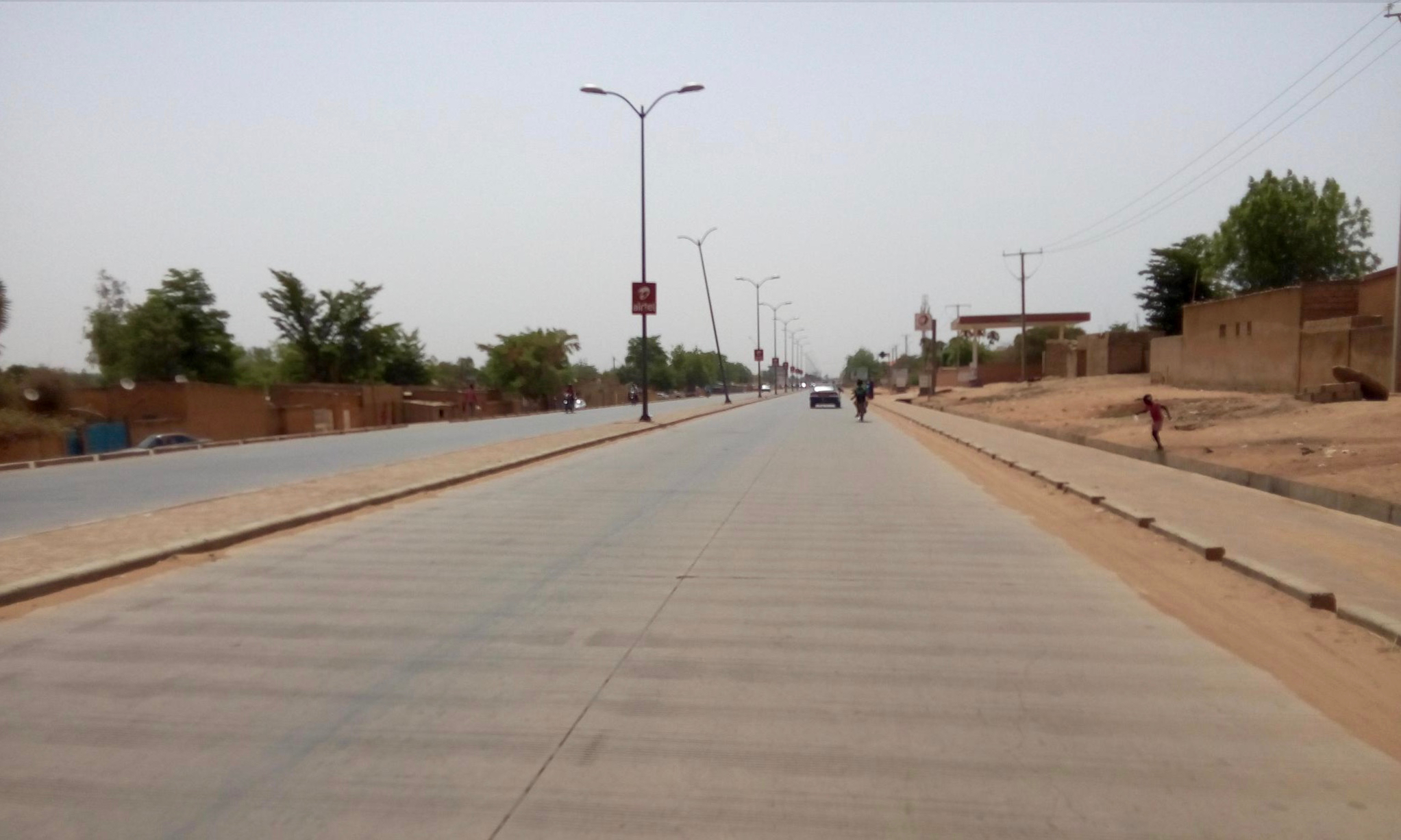 Boulevard du Developpement, Gawèye, Niamey.